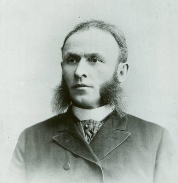 DMDickinson